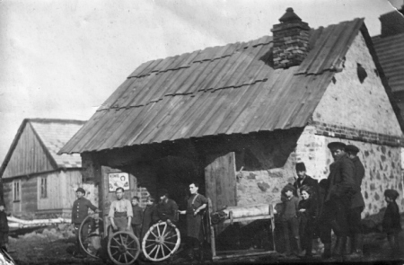 The forge in Radziłów, Poland, run by blacksmith Mejer Kowalski, mid-1920s photo